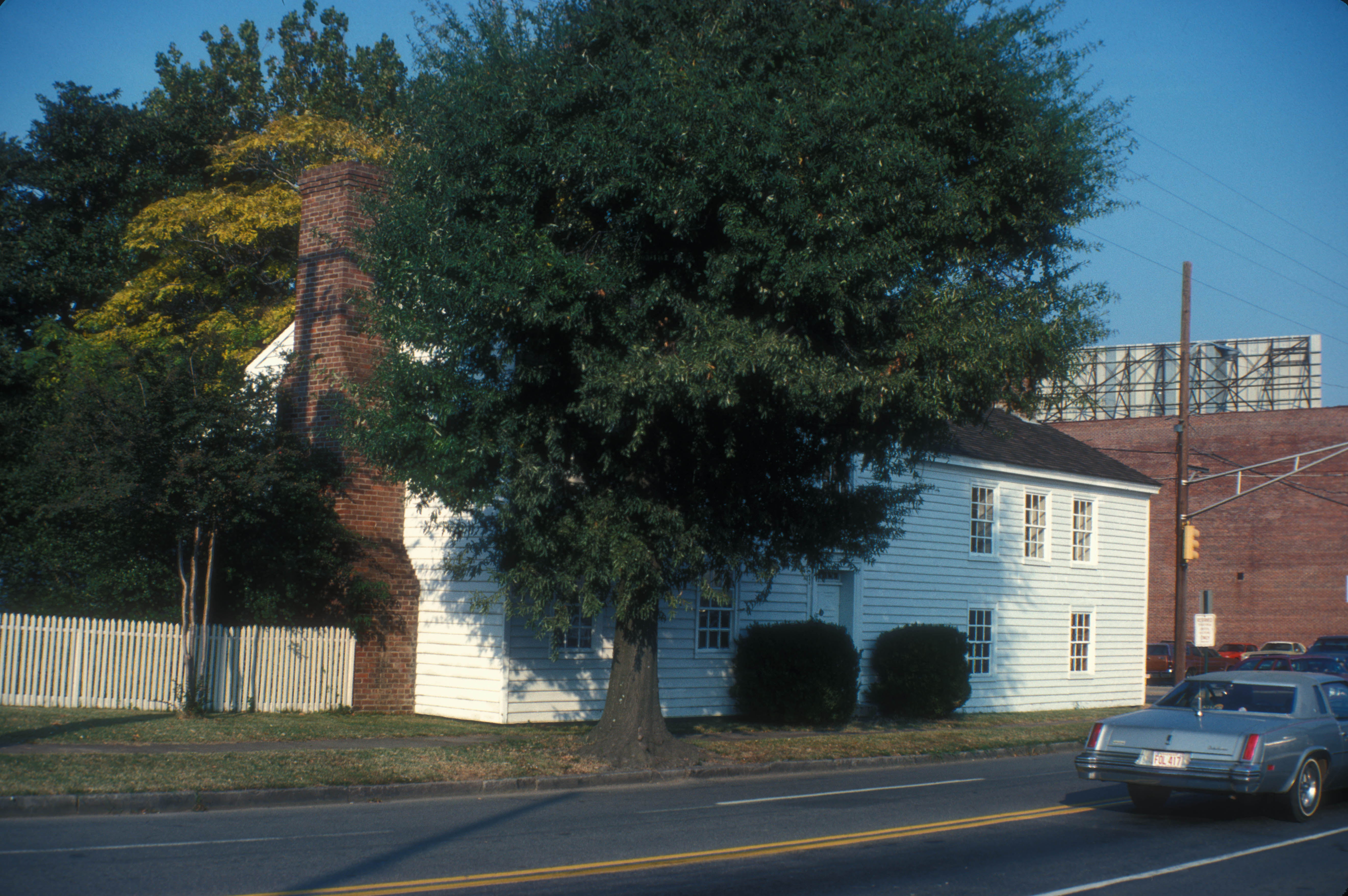 HINDERLITER HOUSE - BUILT 1826 AND OCCUPIED BY JESSE HINDERLITER UNTIL 1834. IT SERVED AS A TAVERN AND RESIDENCE. IT WAS BELIEVED TO HOLD THE LAST MEETING OF THE ARKANSAS TERRITORIAL LEGISLATURE IN 1835. IT IS ALSO SAID TO BE THE OLDEST HOUSE IN LITTLE ROCK FORMERLY KNOWN AS ARKANSAS TERRITORIAL RESTORATION. IT CONSISTS OF AT LEAST 4 HISTORIC BUILDINGS AND NOW A MUSEUM OF ARTIFACTS ALSO